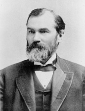 Wilbur F. Sanders, US Senator from Montana